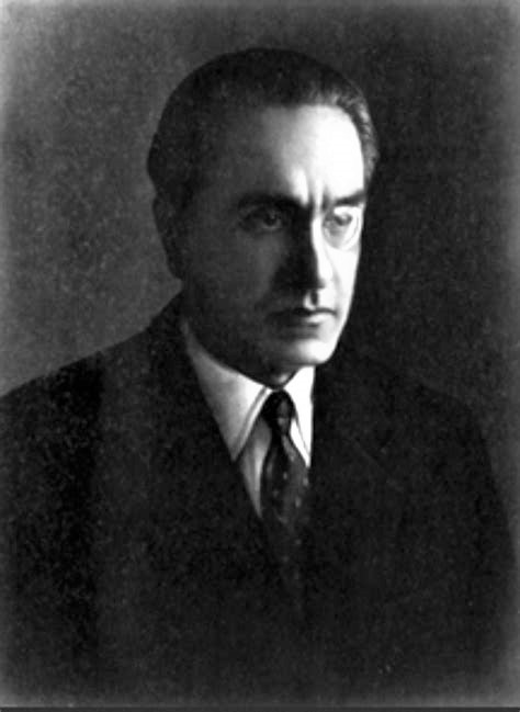 Baron Julius Evola , early 40s